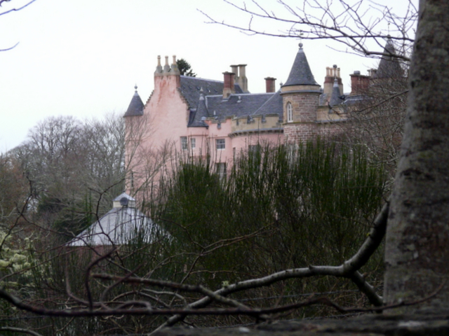 Balnagown Castle Former seat of the Earls of Ross, the derelict castle was purchased and restored at great expense by Mr. Al Fayed. for some history and ongoing litigation.